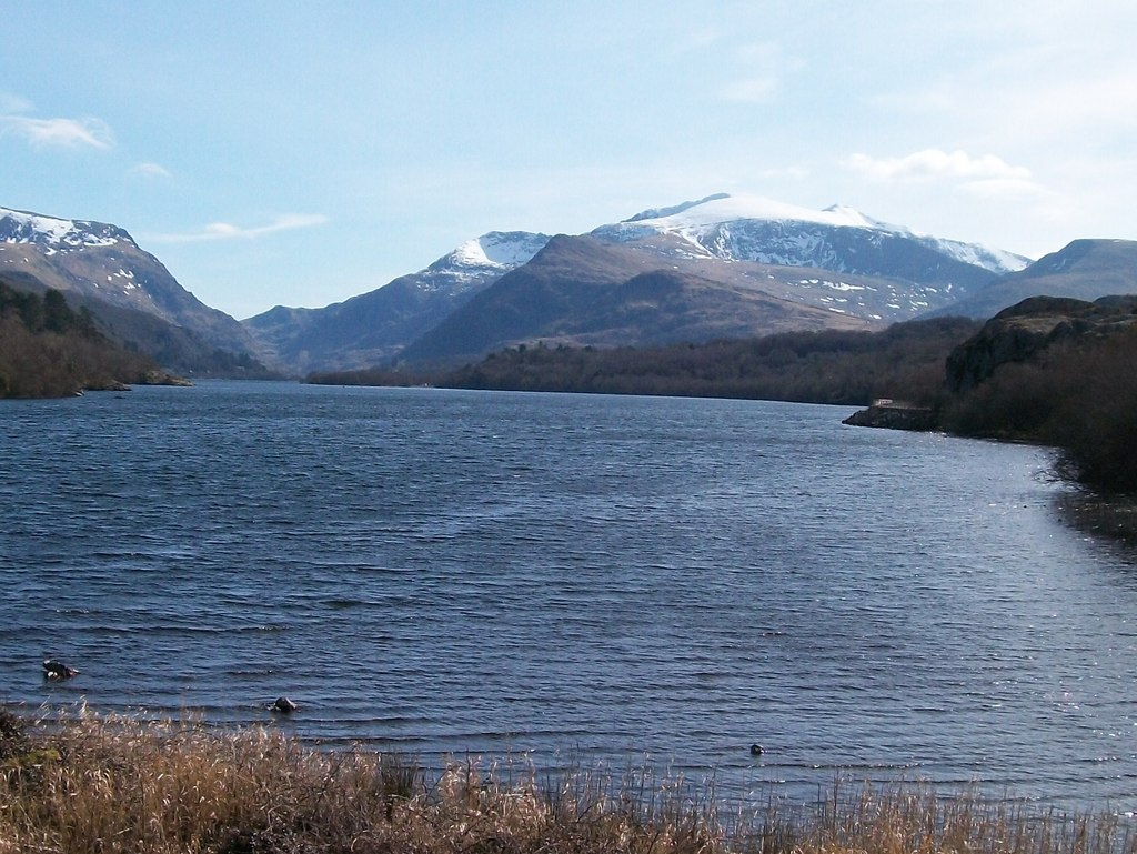 Llyn Padarn from Penllyn on a March day Crib Goch and Yr Wyddfa (Snowdon) form the background.